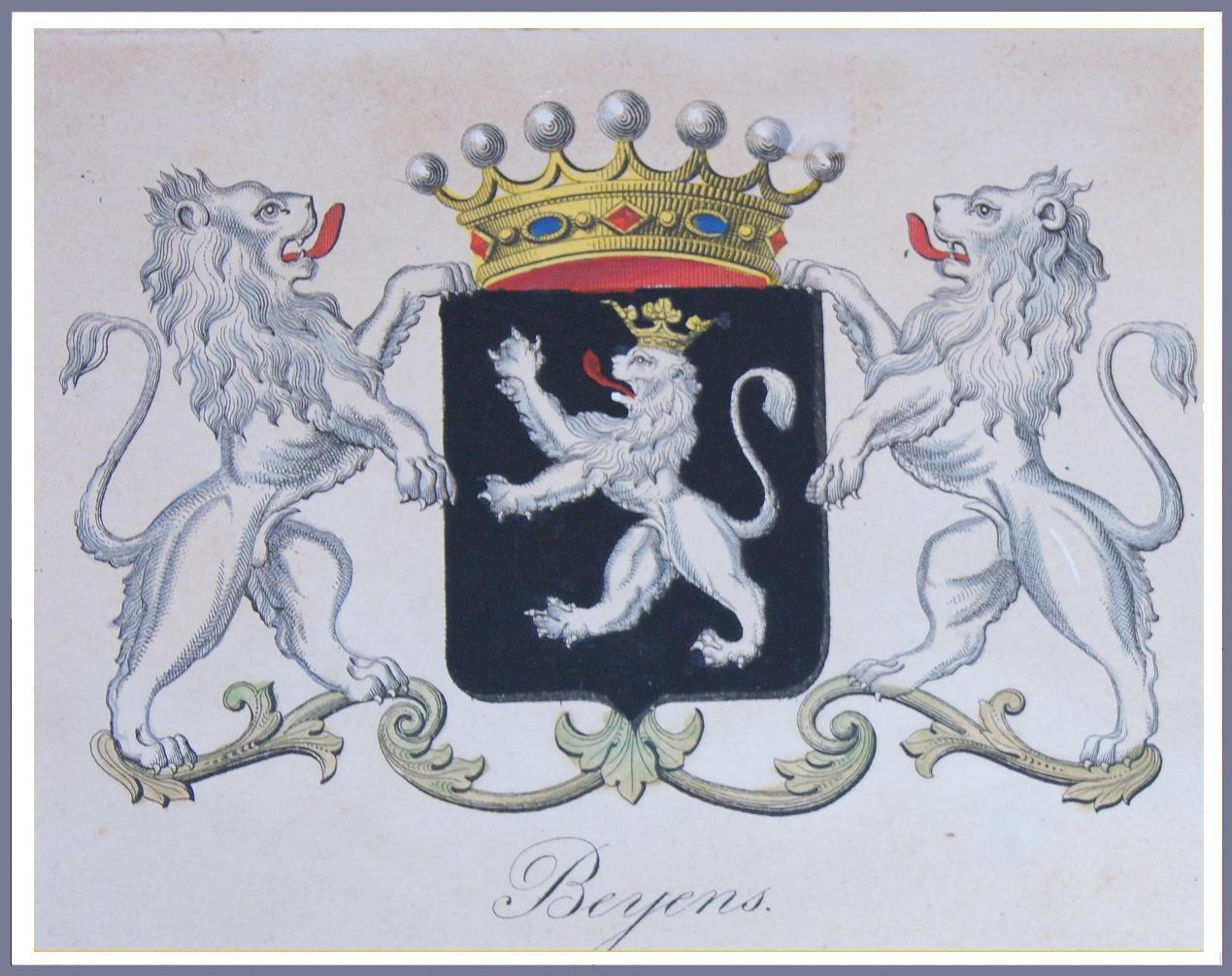 Coat of Arms Baron Beyens